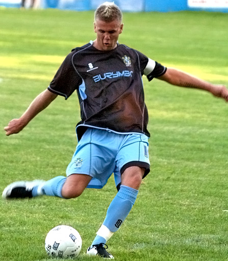 Andy Bishop. Image cropped from original at flickr.